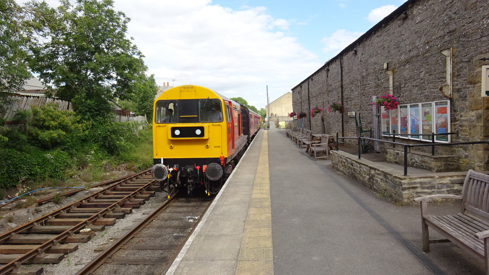 Leyburn railway station with diesel-electric locomotive, Wensleydale Railway, Yorkshire, England.